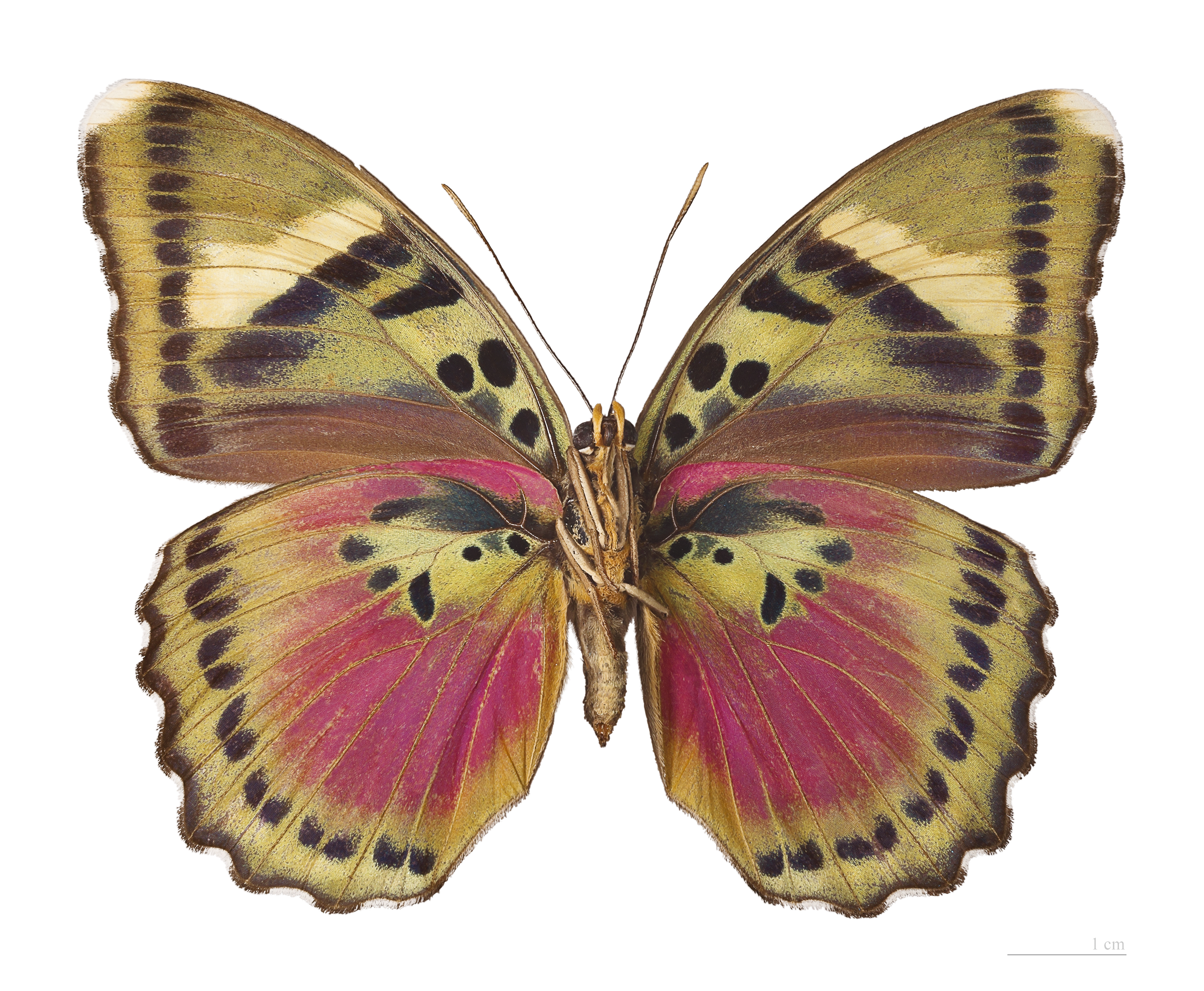 ♀ - Two views of same specimen Locality: Sébobokélé, Central African Republic